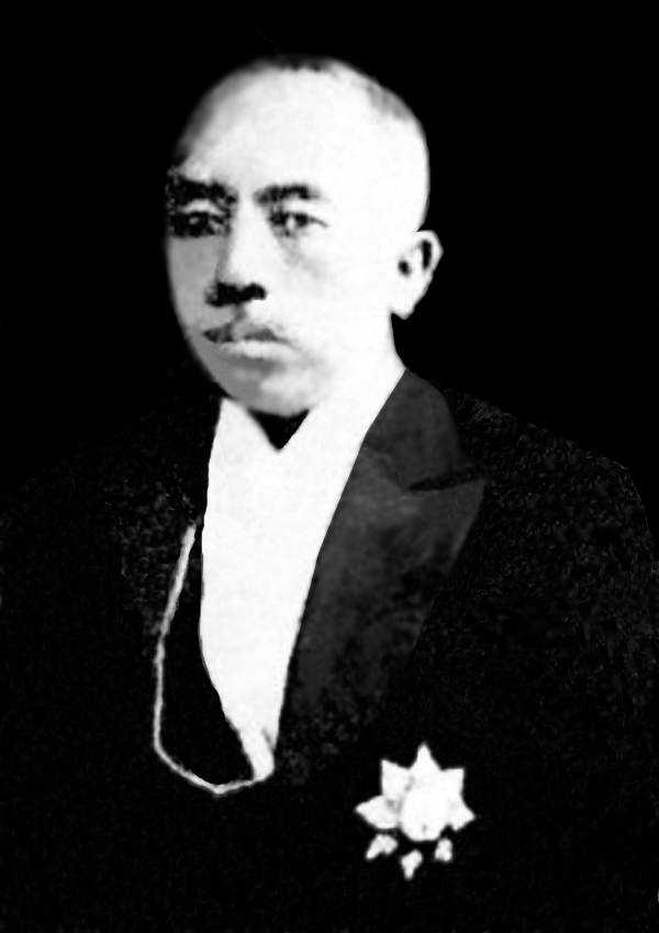 Ma Zhongjun (1870-1957)